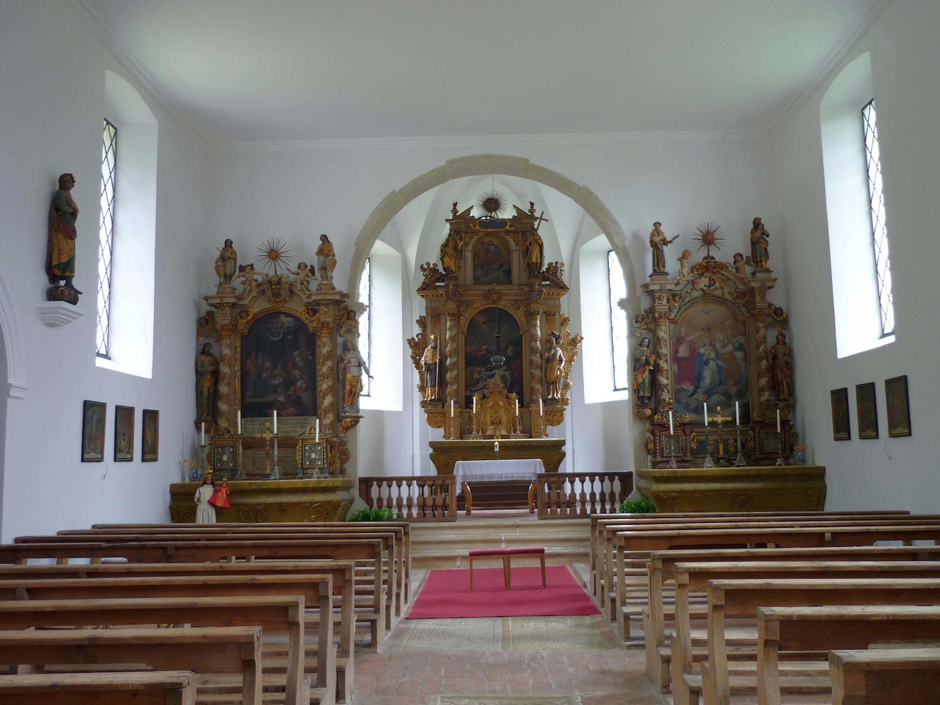 Chapel Allerheiligen ("All Saints") in Grenchen, canton of Solothurn, Switzerland, interior.